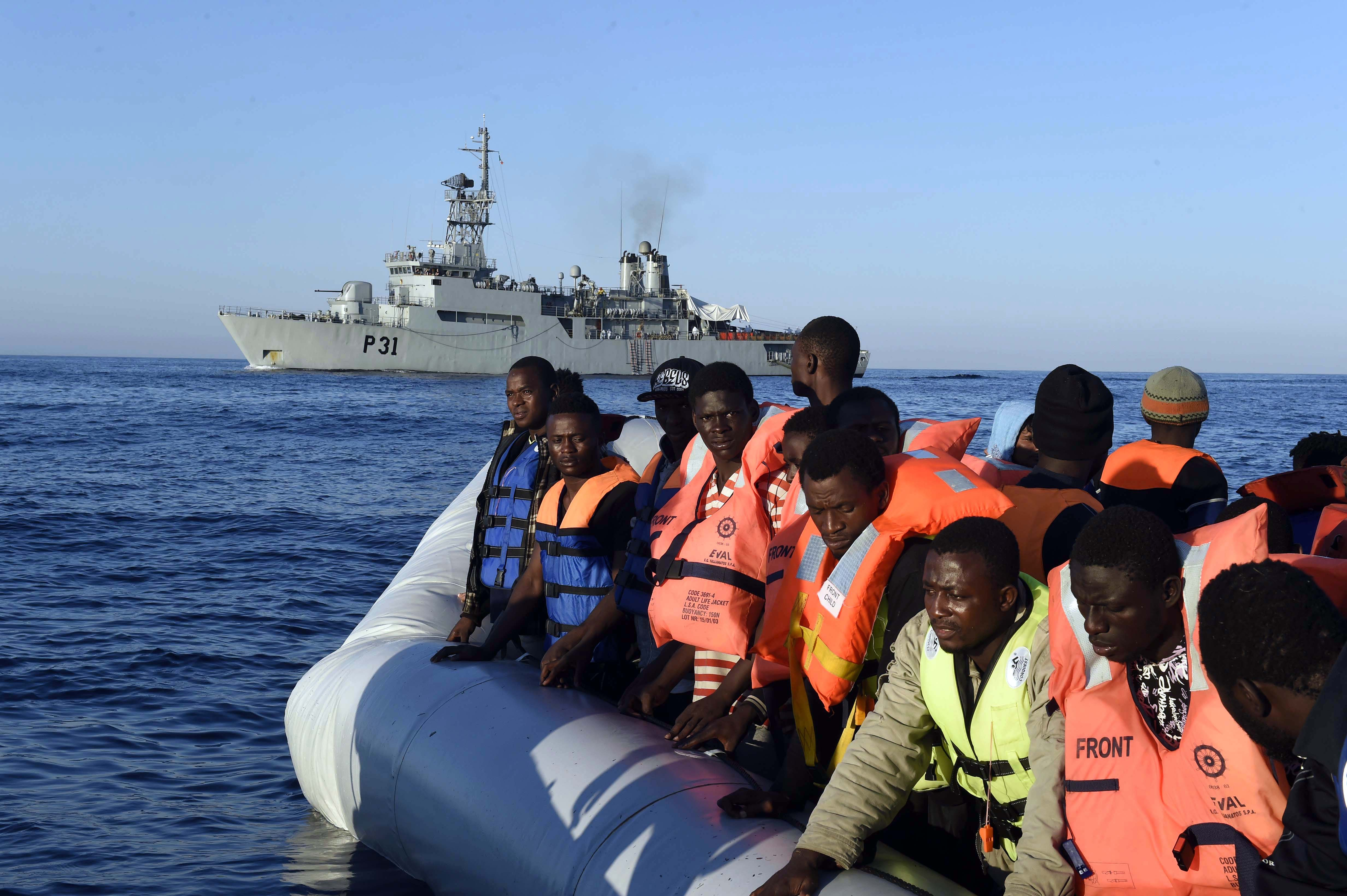 LE Eithne Operations 28 June 2015